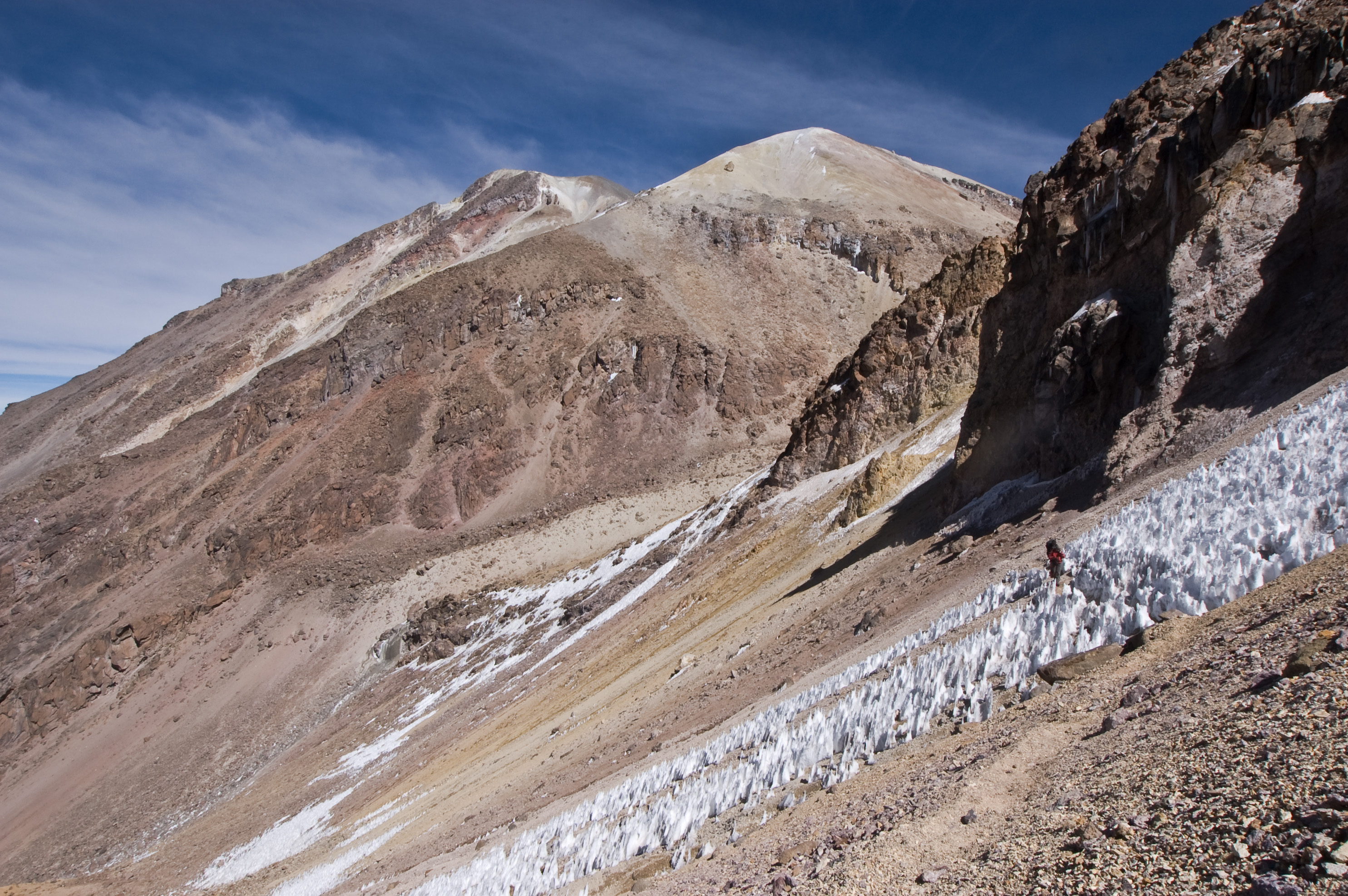 Summit of the Chachani (to the left, seems a bit lower), 6075m high, and Mt Fatima (highest on the photo), the highest of the three volcanoes above Arequipa, Peru, in october 2007. The path to reach the summit can be seen, going almost to the top of Mt Fatima first. Despite the altitude, the mountain is almost entirely free of snow at this time of year, mainly due to the dry climate of the area.